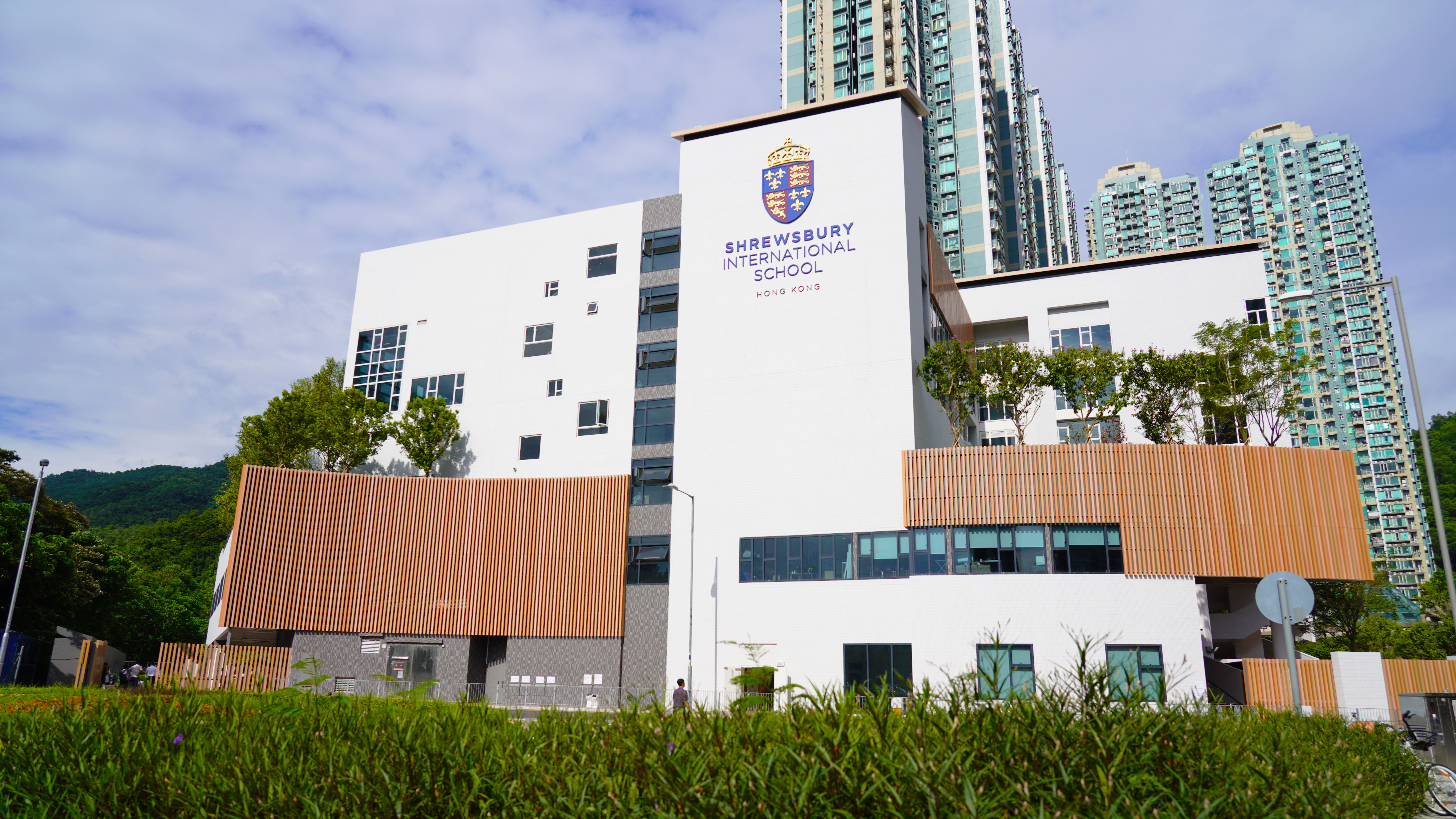 Shrewsbury International School Hong Kong 中文（香港）: 香港思貝禮國際學校